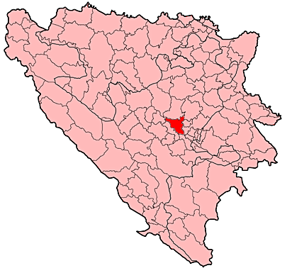 Location of Visoko municipality in Bosnia and Herzegovina.